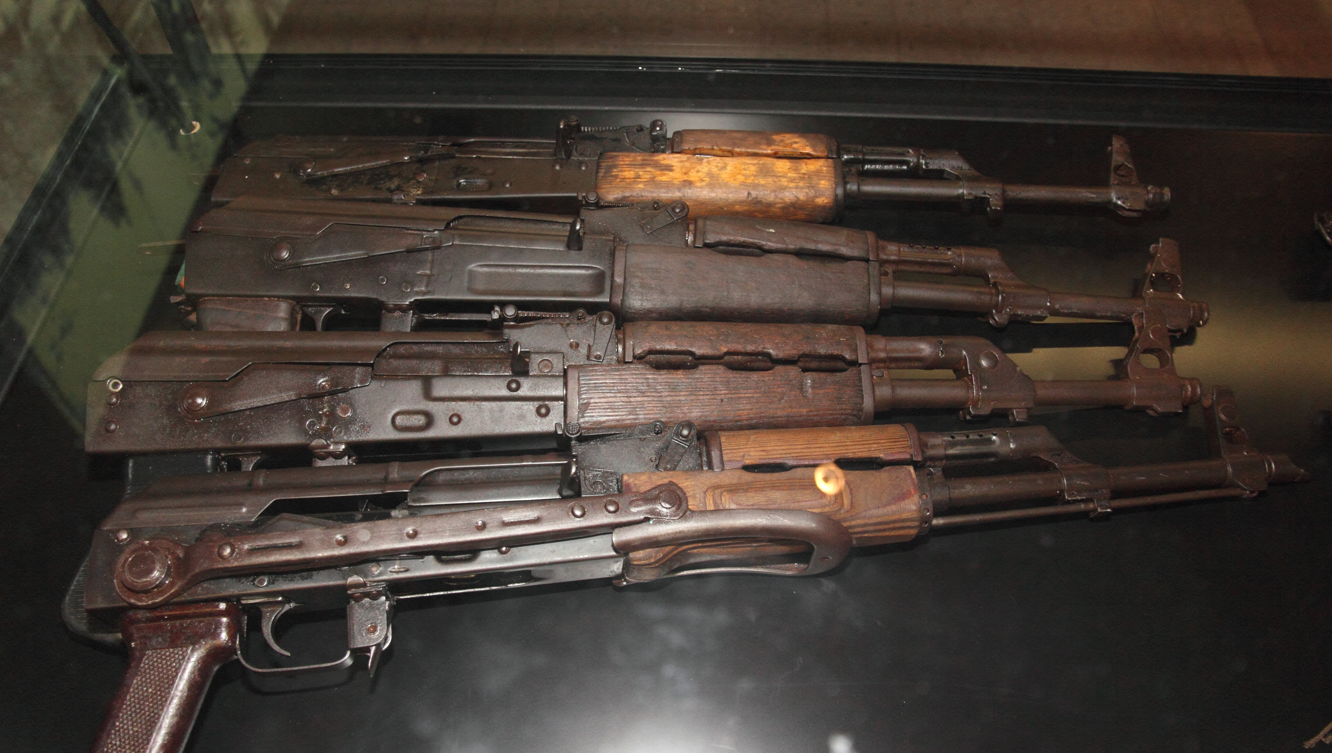 AK-47 copies confiscated from Somali pirates by Finnish minelayer Pohjanmaa during operation Atalanta, photographed in Manege military museum.